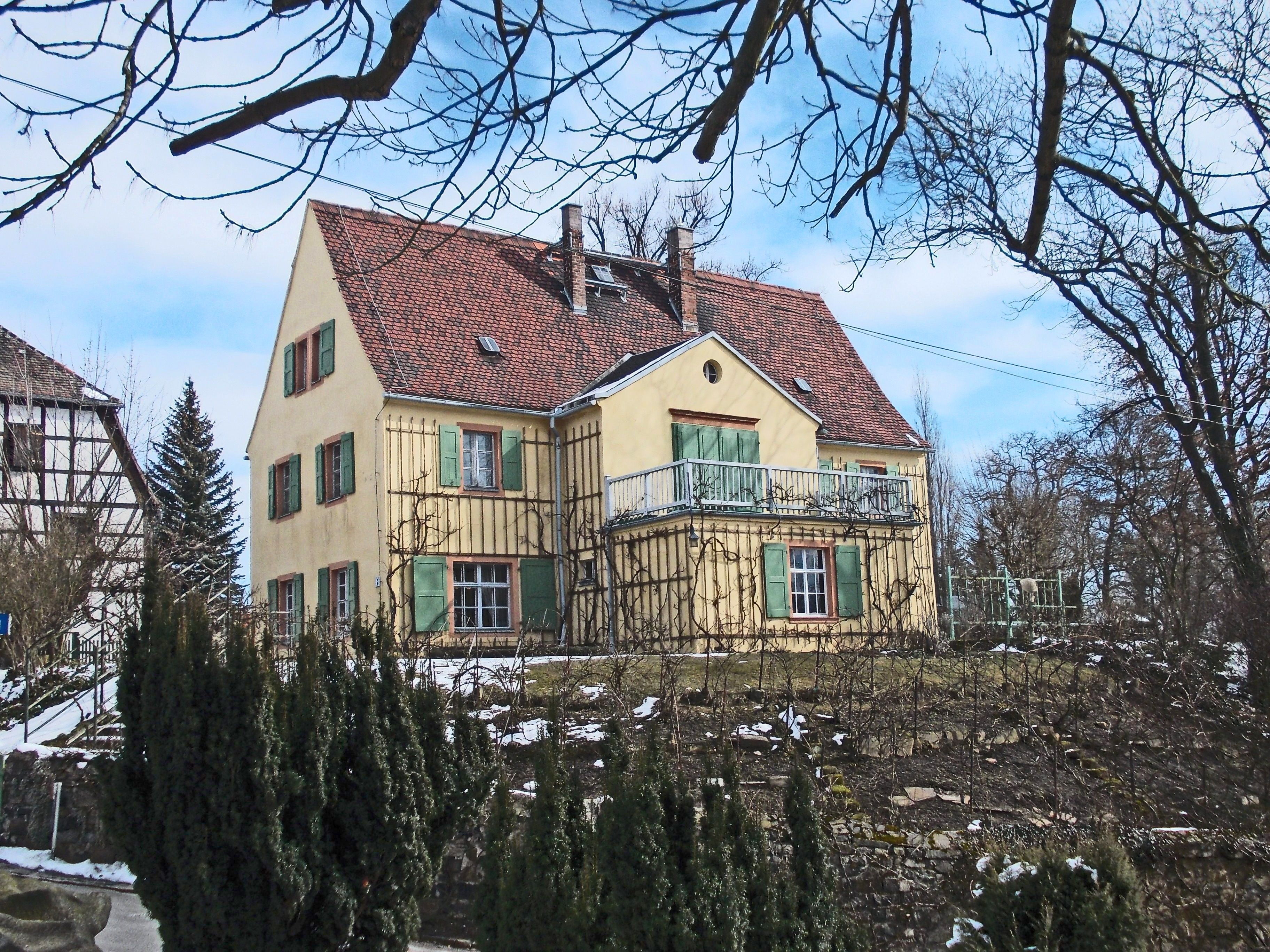 Göschen's House in Hohnstädt (Grimma, Leipzig district, Saxony)